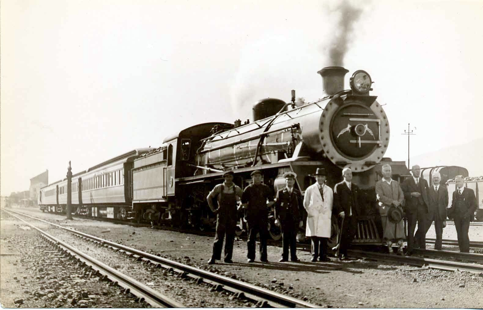 SAR Class 19C (4-8-2) Class 19C after a record test run, during which the locomotive achieved 67mph. A.G. Watson, SAR Chief Mechanical Engineer from 1929 to 1936 standing 6th from left with hat in hand, Dr Eric Manken, 1930's Railway Circle member 7th from left